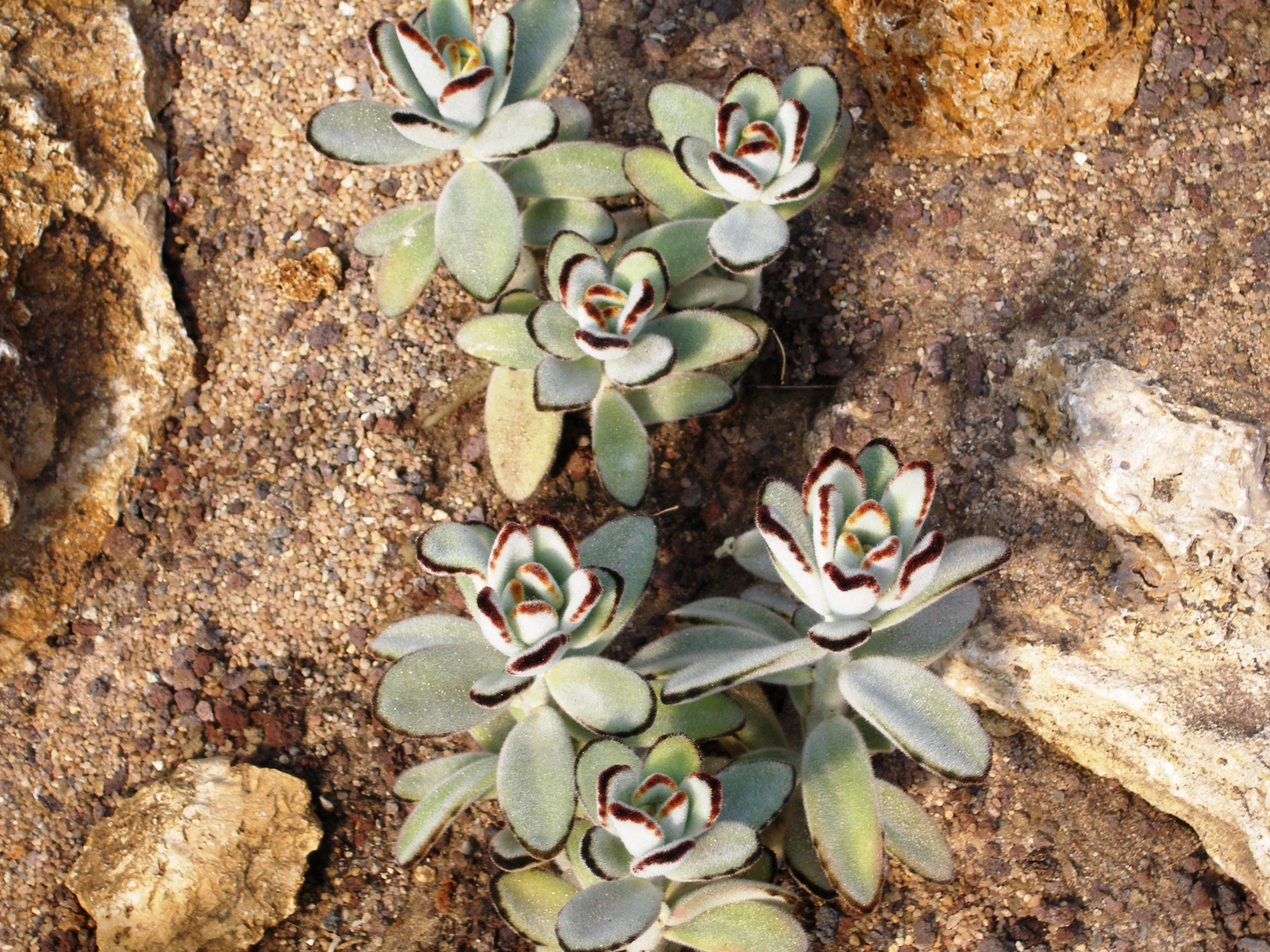 Specimen in cultivation at the Wilhelma Zoologisch-Botanische Garten, Stuttgart, Germany.